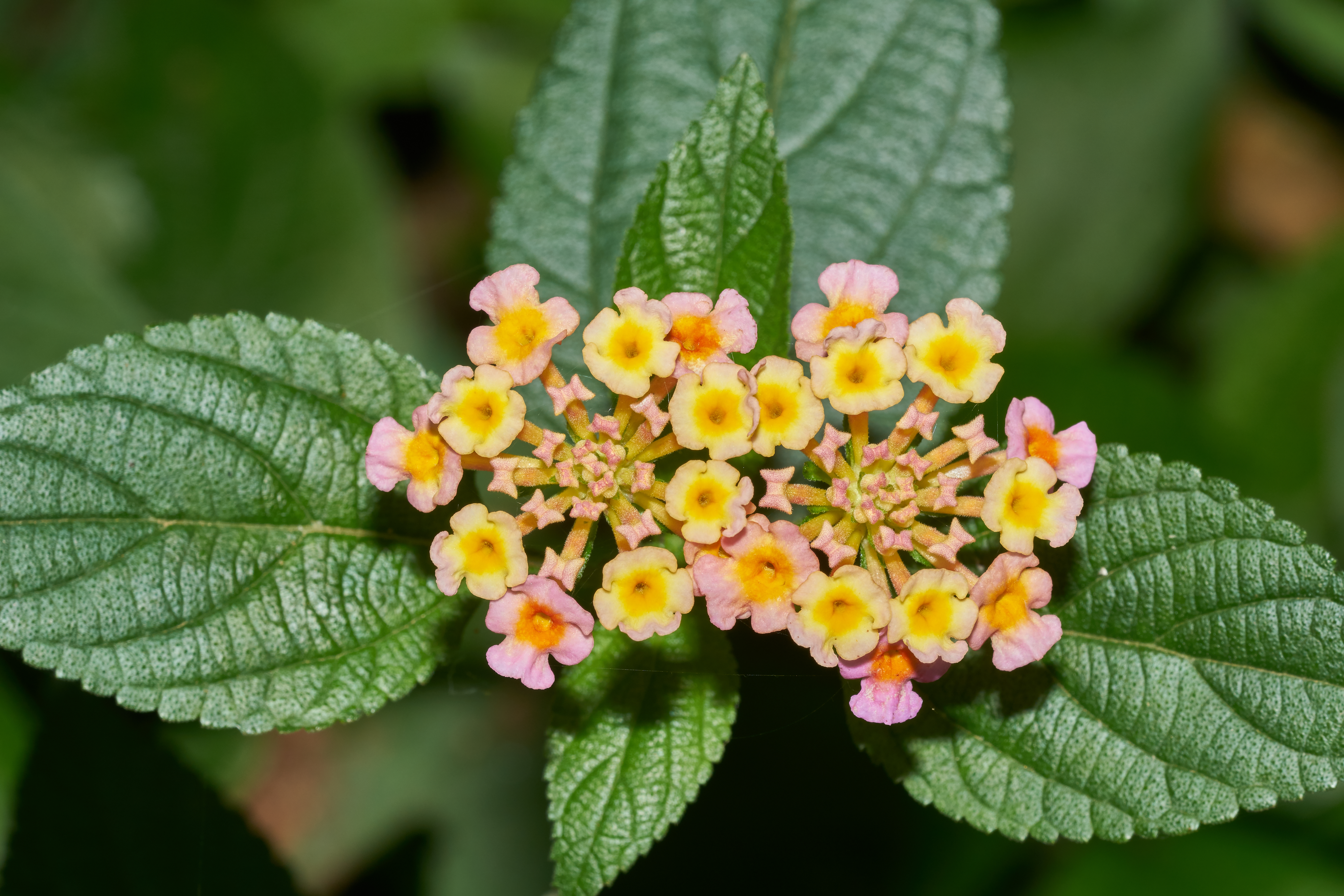 Lantana camara, Common lantana, Wild-sage, Tickberry, is tropical flowering species in Verbenaceae family.